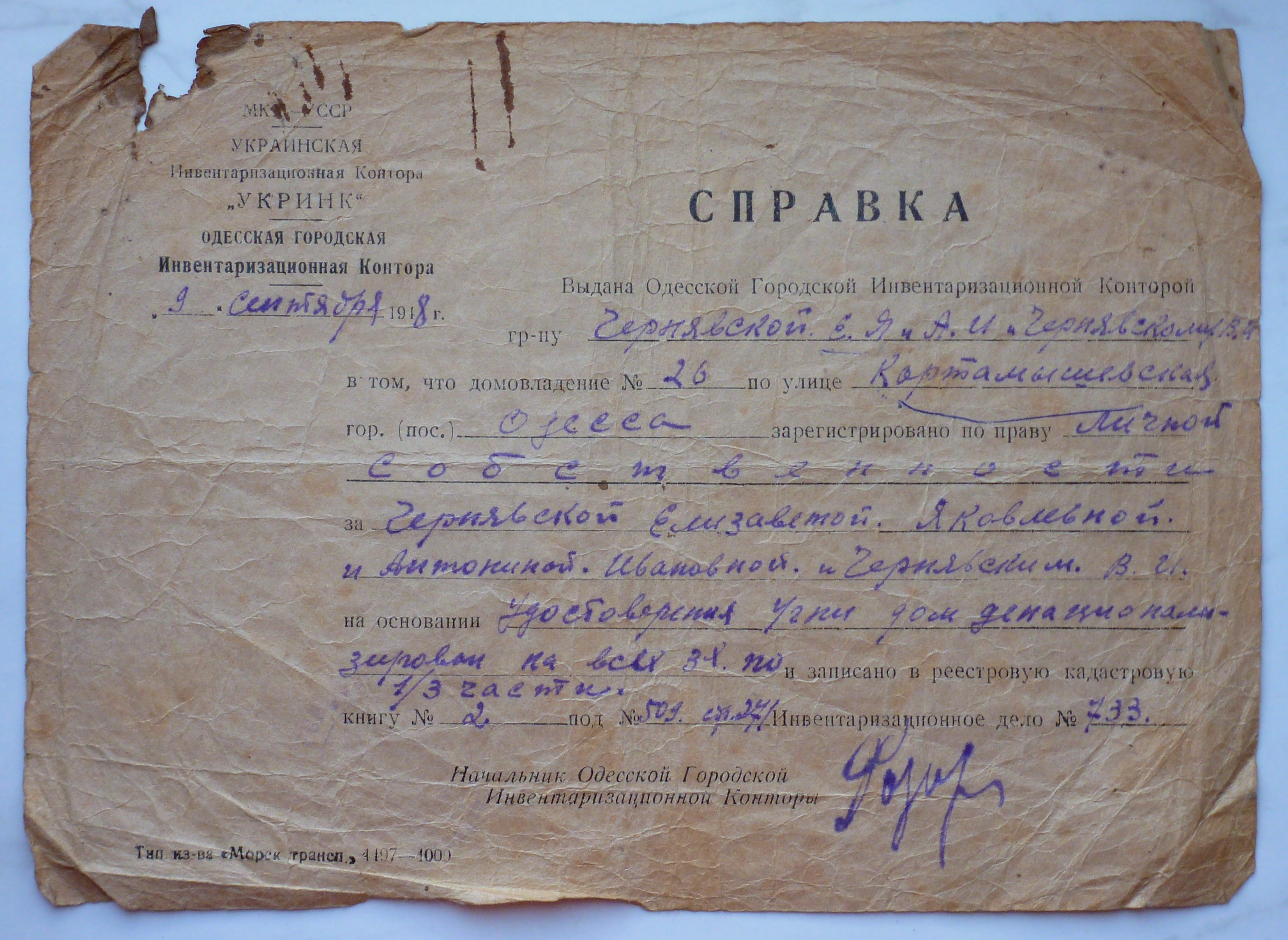 Denationalization Certificate of house on Kartamyshevskaya, 26, Odessa. The certificate dated 9 of September, 1948 (could not be 1918 as in certificate mentioned USSR, which was created in 1919). As per this certificate the houses in the yard on Kartomyshevskaya 26 were denationalizated and back to the pre-revolutionary owners Chernyavskaya Yelizaveta Yakovlevna (as mother) and her daughter Antonina Ivanovna (her family name is not mentioned as she was already married and had family name Zhukovskaya, but maden name Chernyavskaya) and grand son Chernyavskiy Viktor Ivanovich. But according to the recollections of relatives, he died during the World War II.